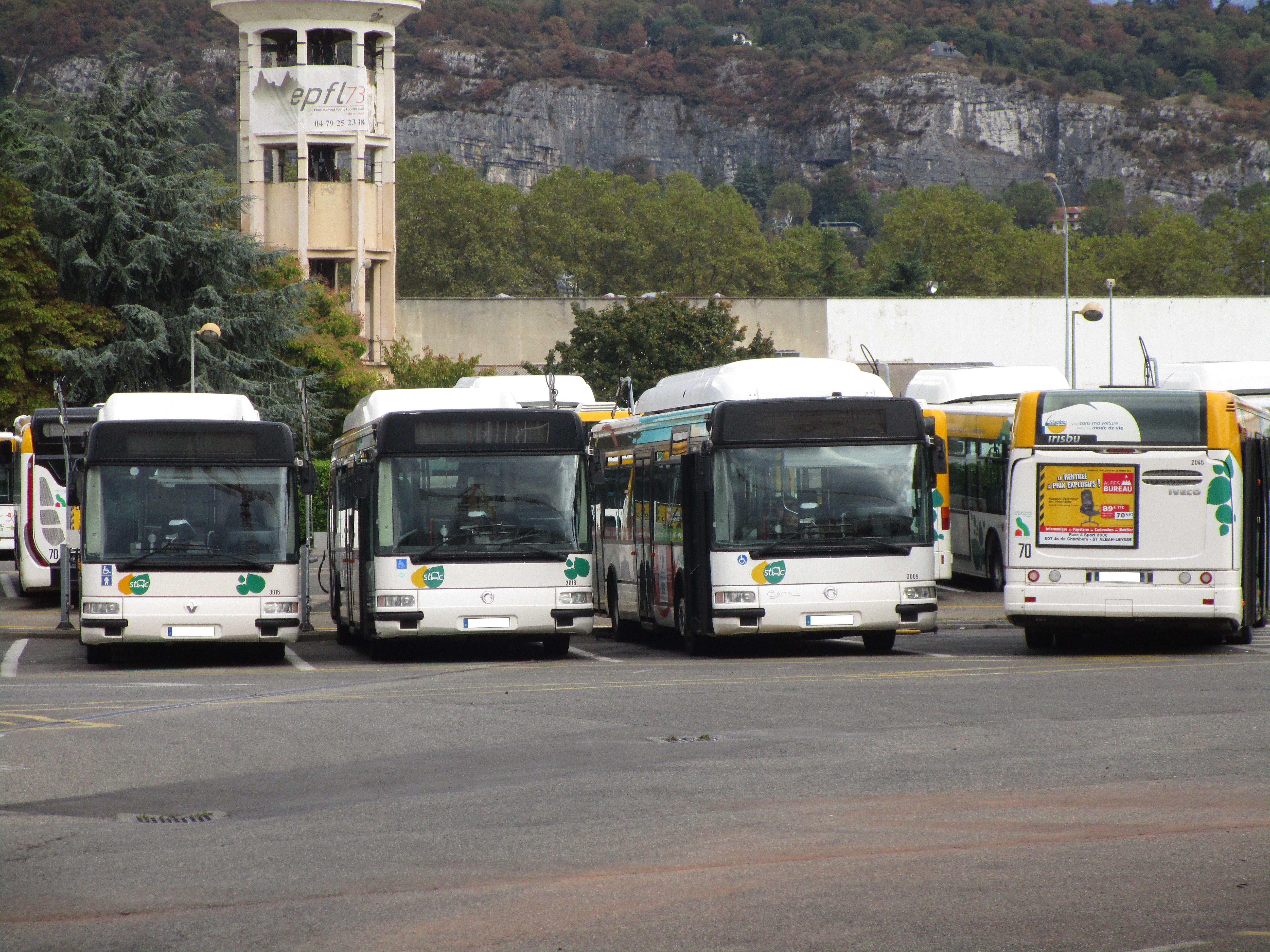 Three buses Irisbus Agora S GNV (n°3016, 3018 and 3009) and the Irisbus Citelis 12 n°2045 of the STAC at the yard in Chambéry on September 15, 2016.